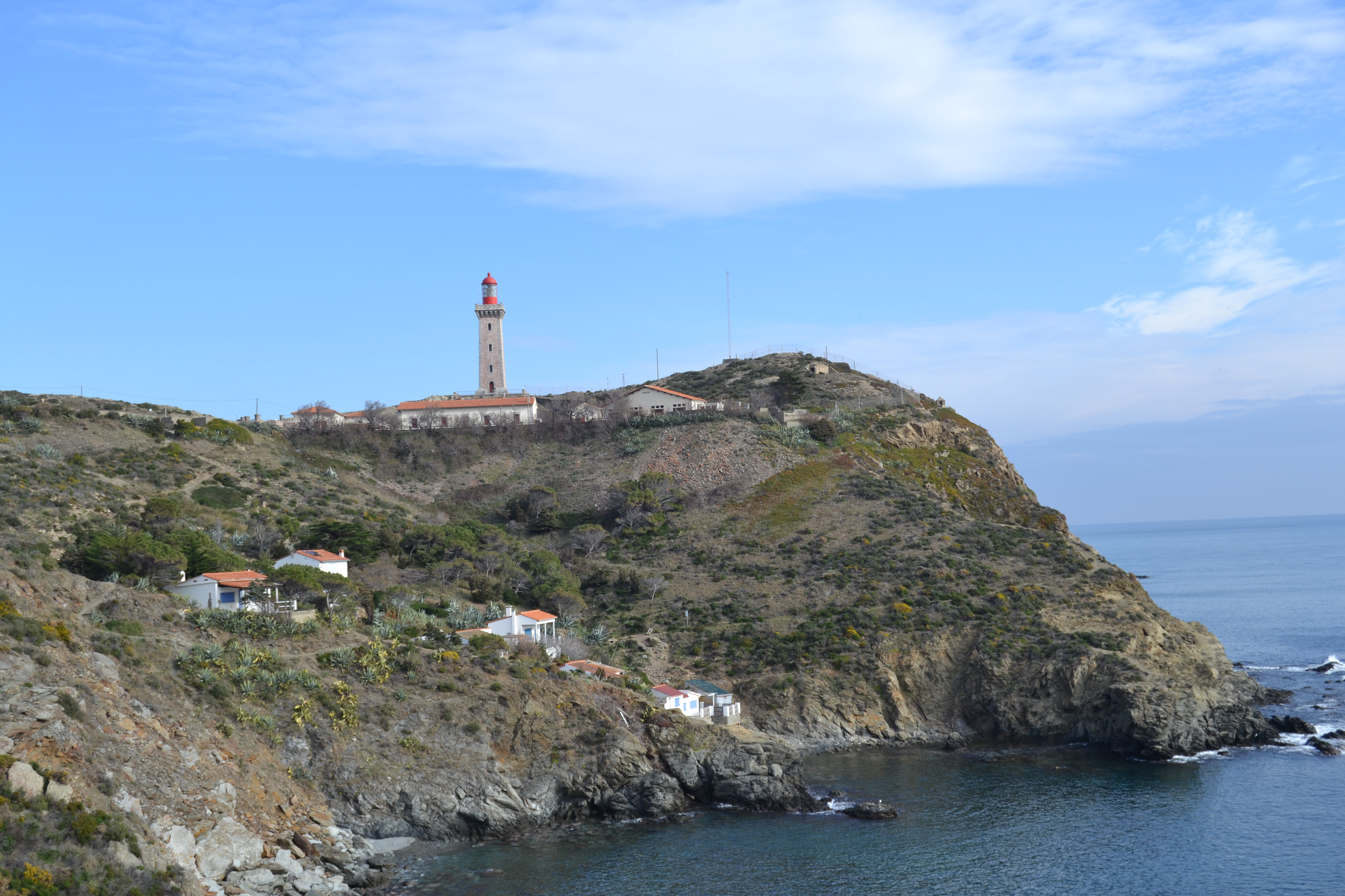 Cap Béar, close to Port-Vendres in the department of Pyrénées-Orientales in the rRegion of Languedoc-Roussillon on the Mediterranean Coast in France.